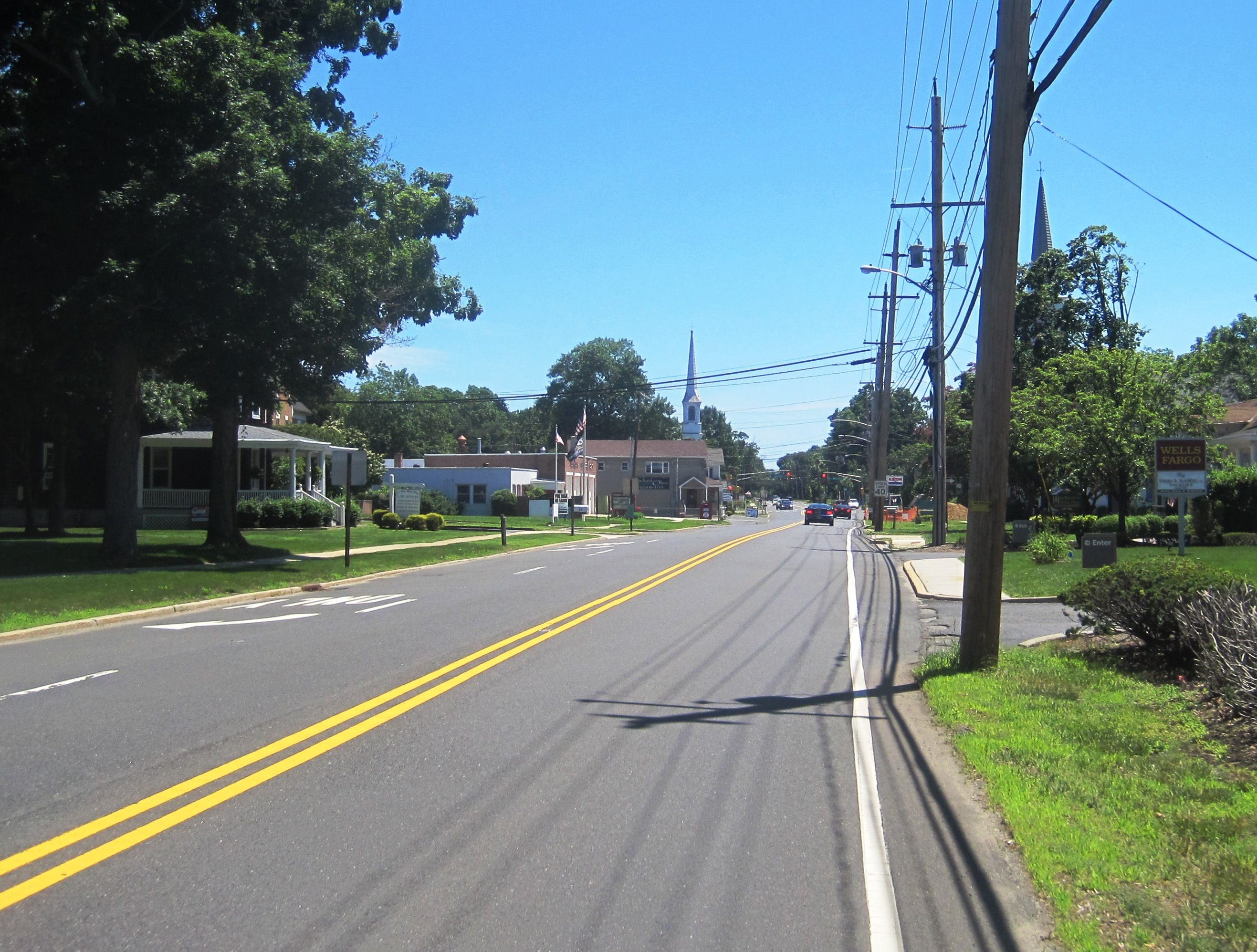 Photograph showing eastbound County Route 520 (West Main Street) approaching CR 4 (Holmdel Road) in the center of the community of Holmdel within Holmdel Township, New Jersey.